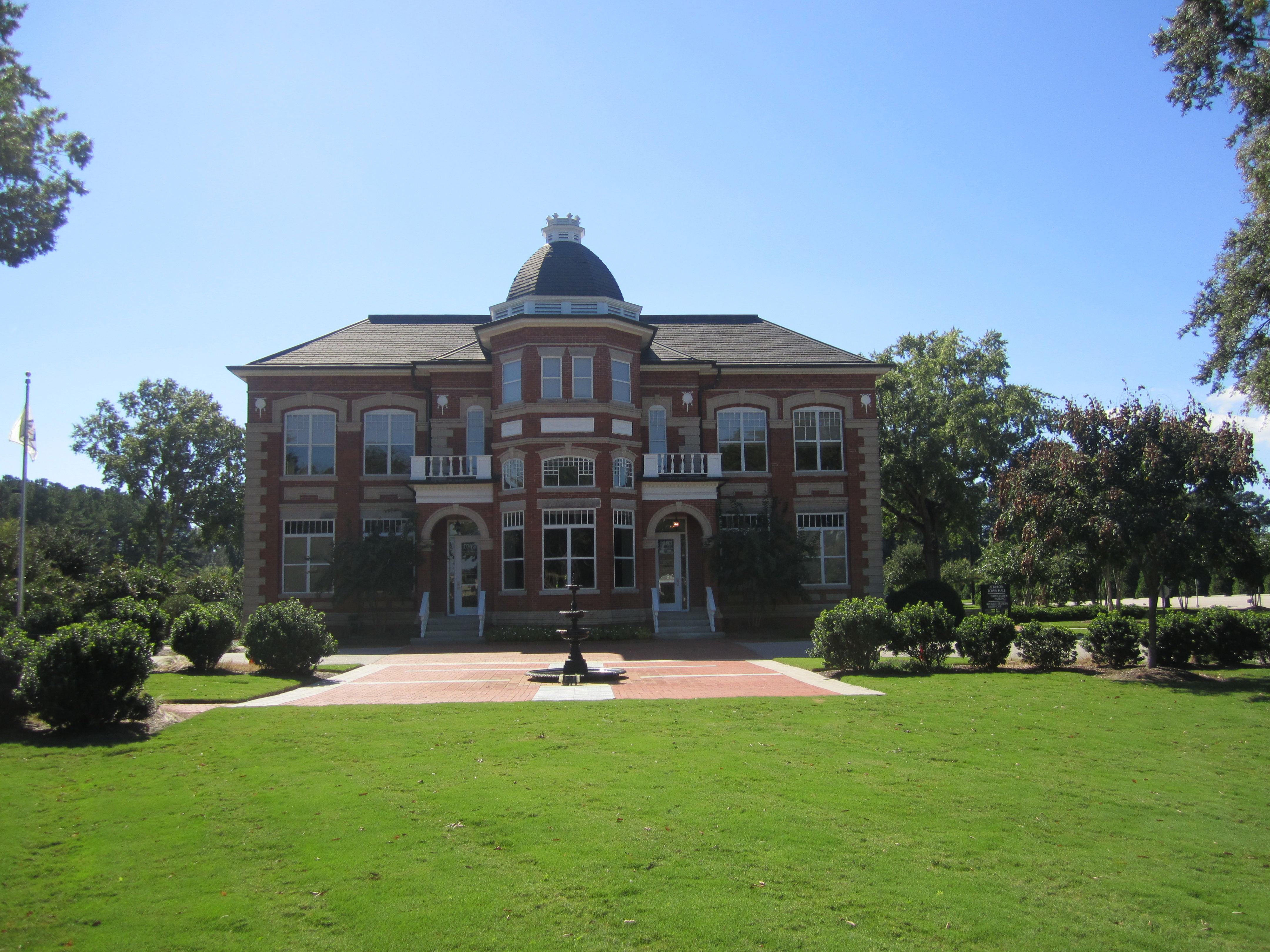 Former Wakelon School, now used as the Zebulon Town Hall.